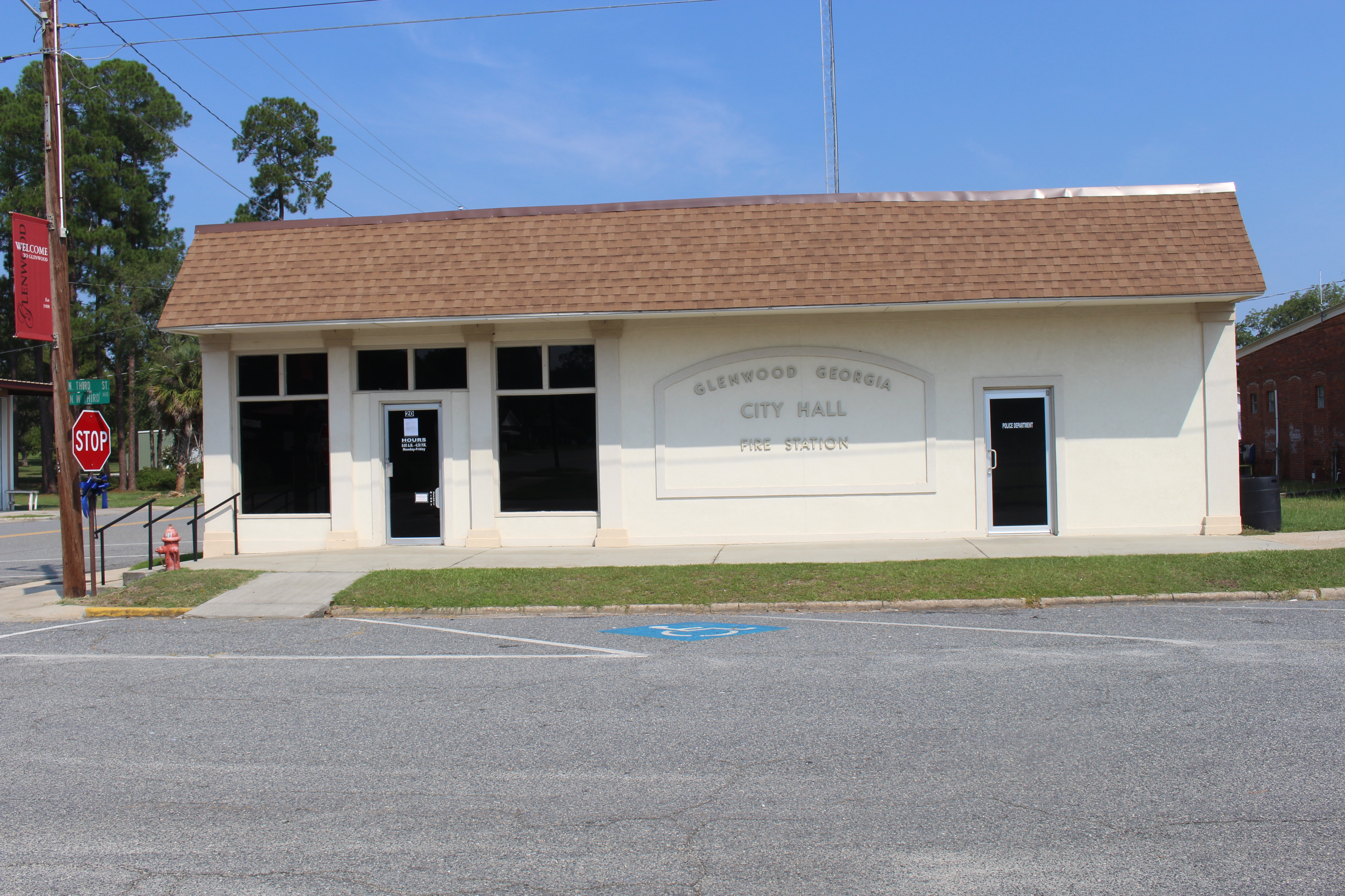 Glenwood City Hall, NW 3rd Ave, Glenwood, Wheeler County, Georgia